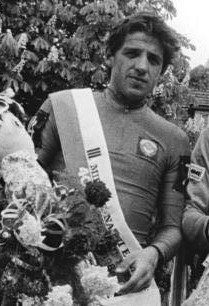 Factual corrections and alternative descriptions are encouraged separately from the original description. Additionally errors can be reported at this page to inform the Bundesarchiv. Original historic description: A. Saitow... ADN-ZB Kasper 21.5.87 Polen: 40. Internationale Friedensfahrt-12. Etappe von Legnica nach Wroclaw über 180 km- Lustige Folklorepuppen erhielten die drei Erstplazierten von Wroclaw....der Dritte Asjat Saitow (...UdSSR). (Asiat Saitov)